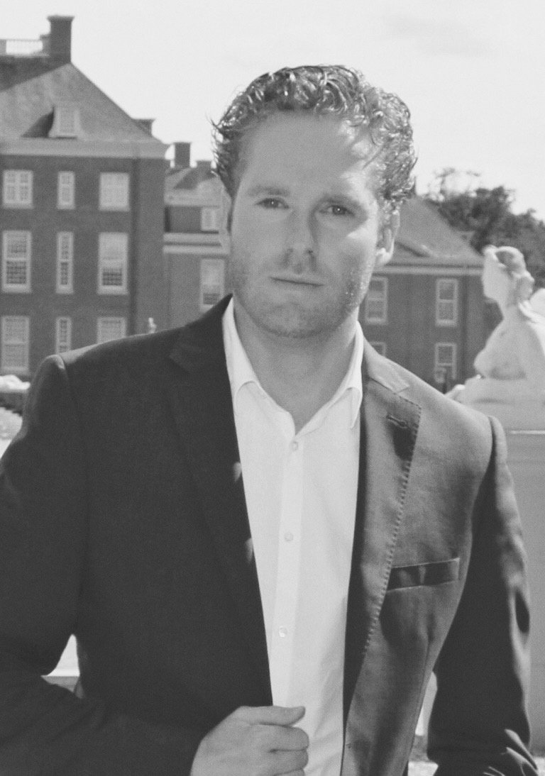 Dutch actor Sander Jan Klerk